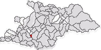 Map of Coaş commune in Maramureş